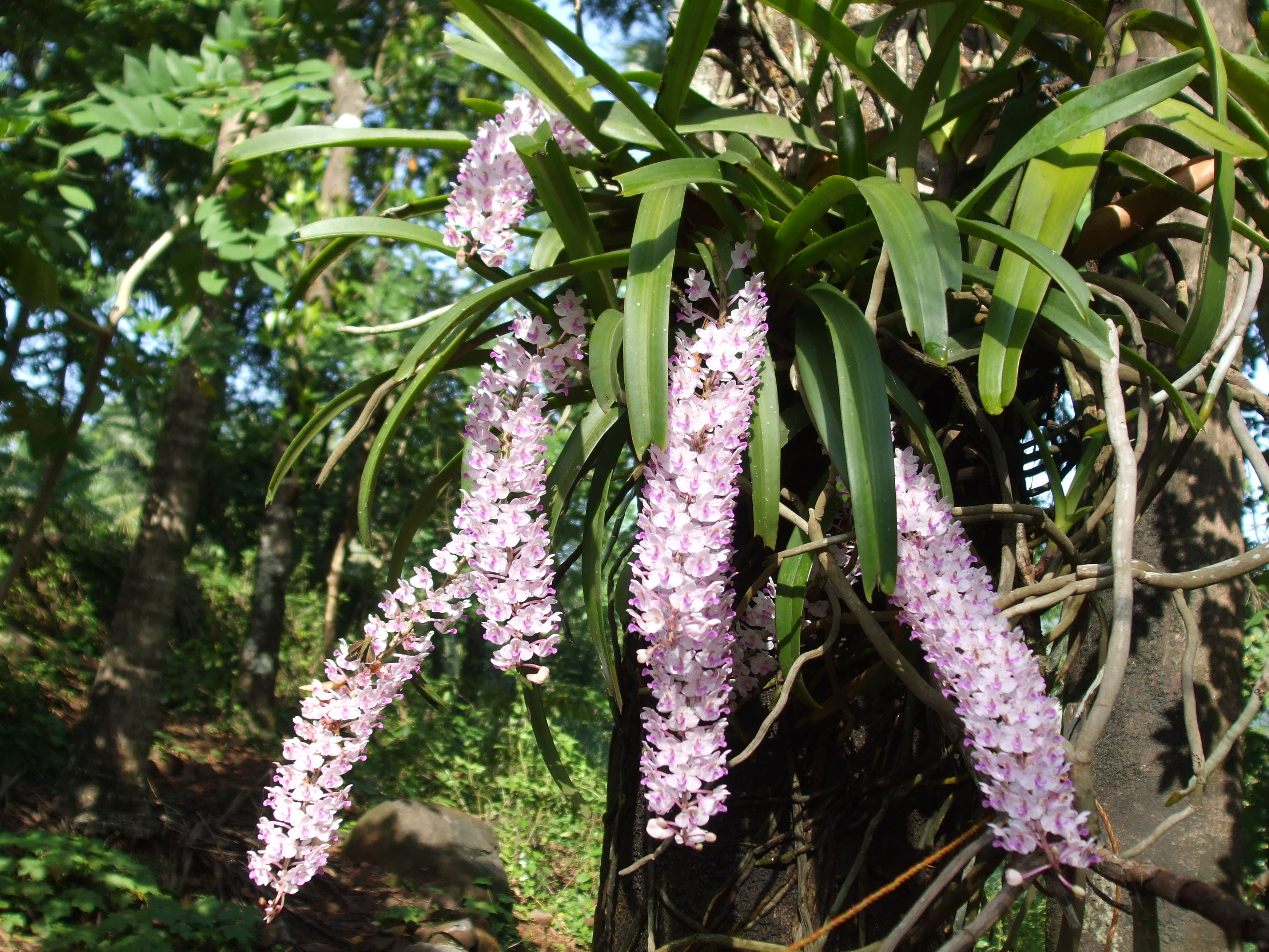 foxtail orchid